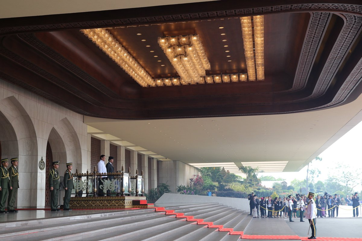 President Rodrigo Roa Duterte and Brunei Darussalam Sultan Haji Hassanal Bolkiah Mu’izzaddin Waddaulah are standing on a platform at the Istana Nurul Iman on October 17.